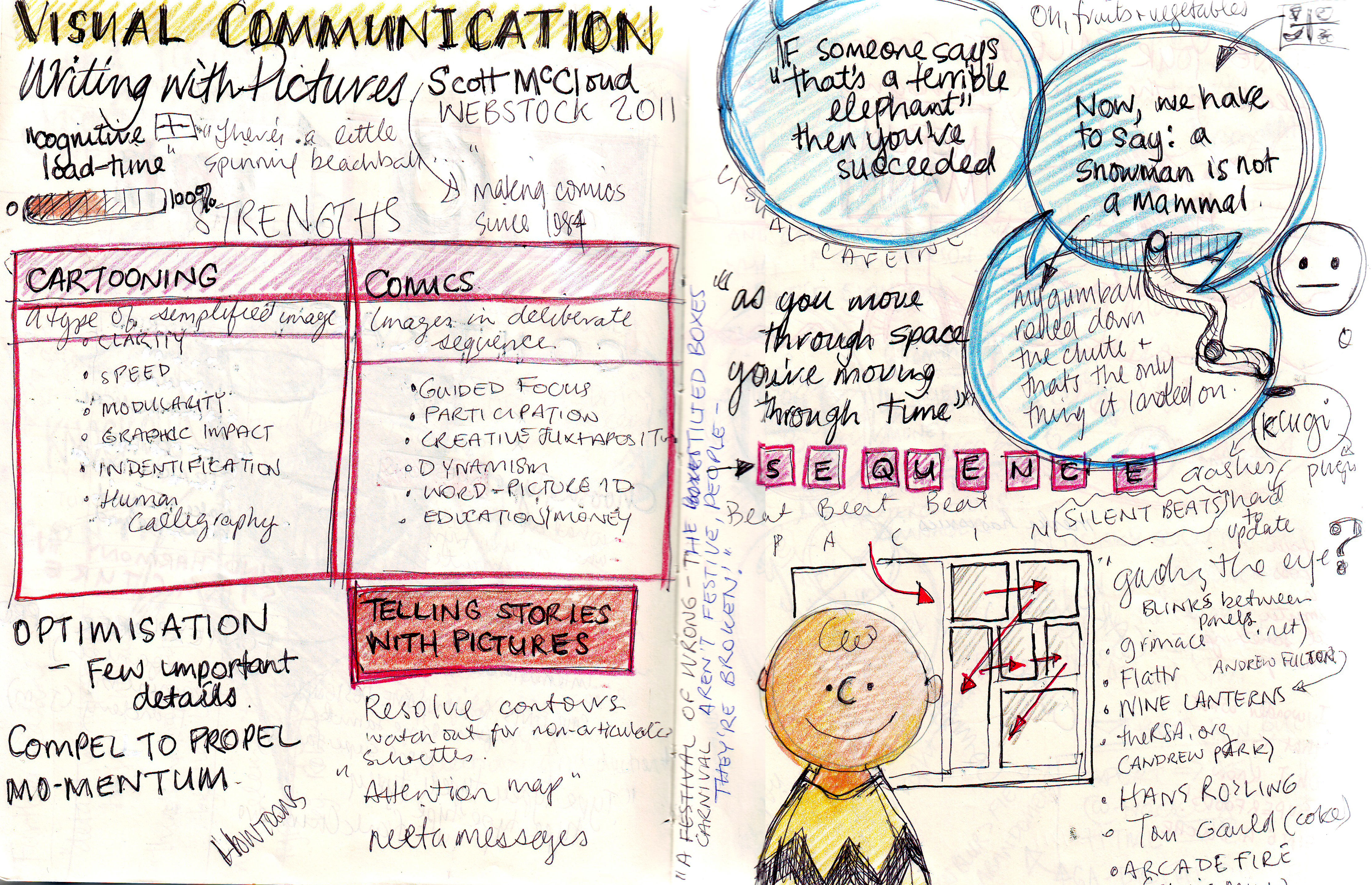 Through the use of images it helps the viewer draw inquiries to the meaning of the image.